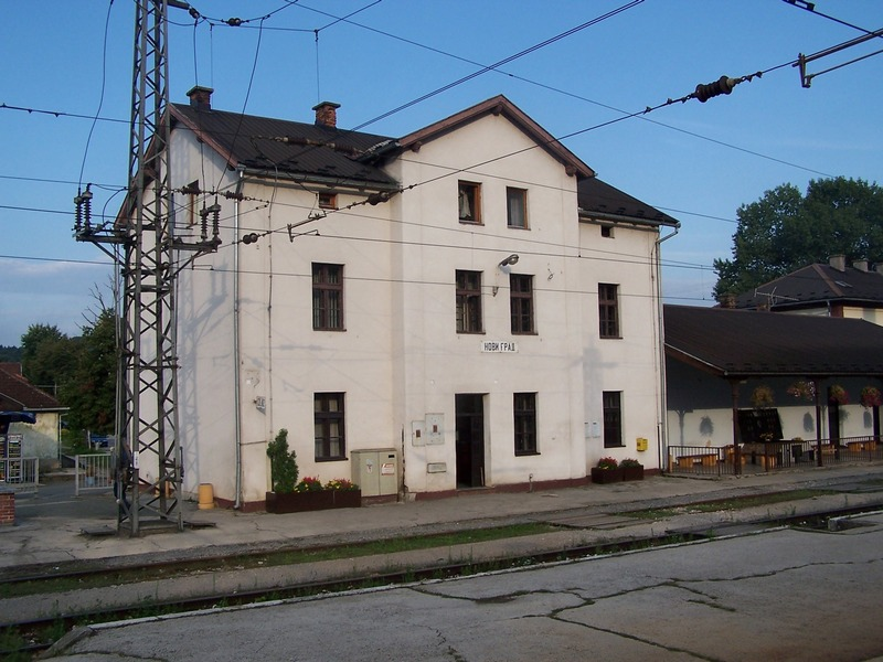 Novi Grad Railway Station